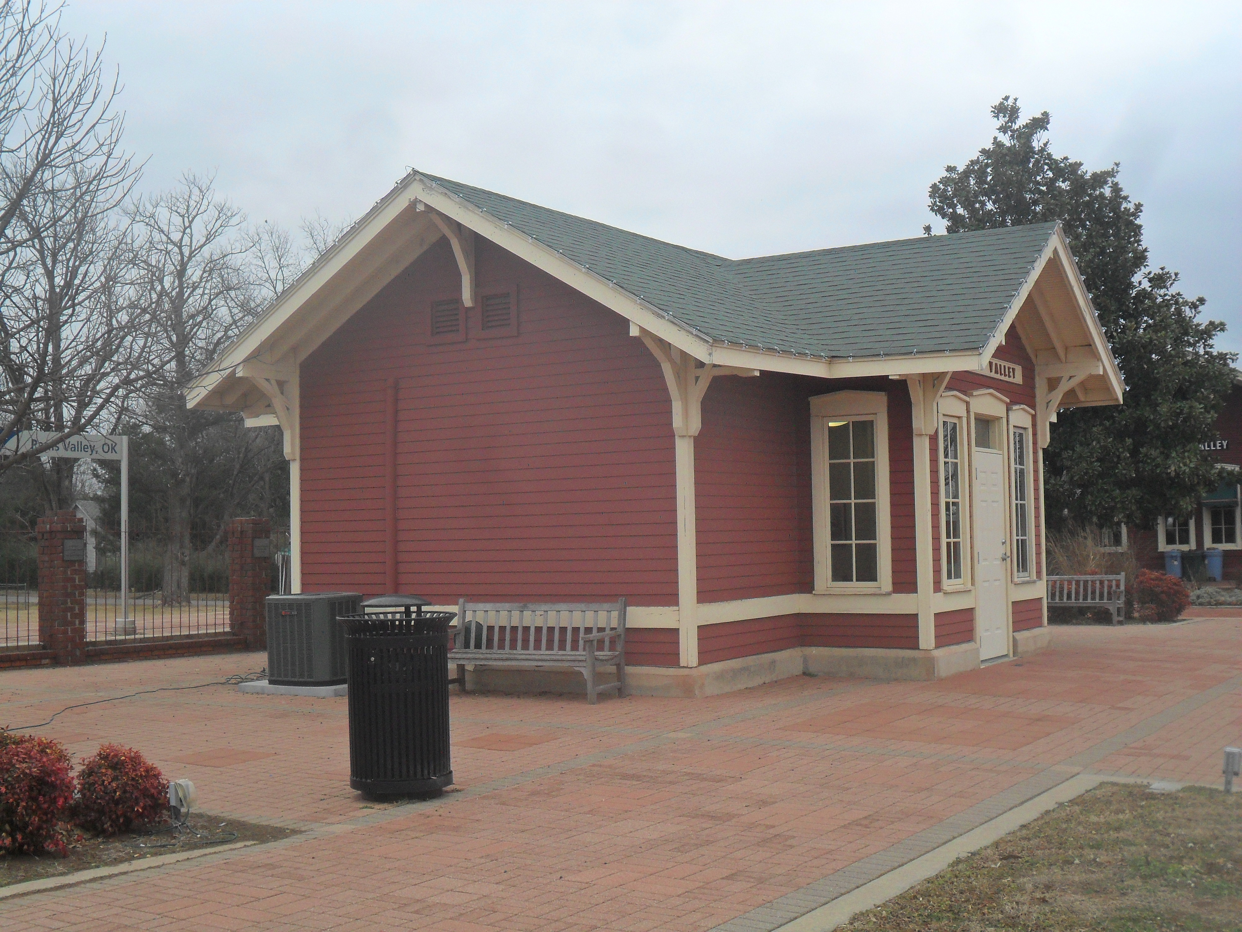 The currently used Amtrak station in Pauls Valley, built in 2002.